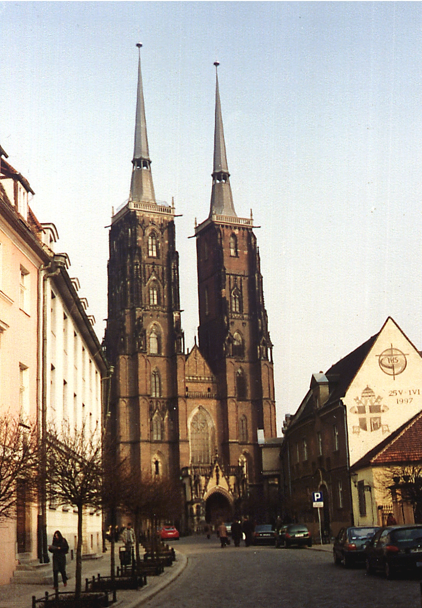 Cathedral church in Wrocław, Poland